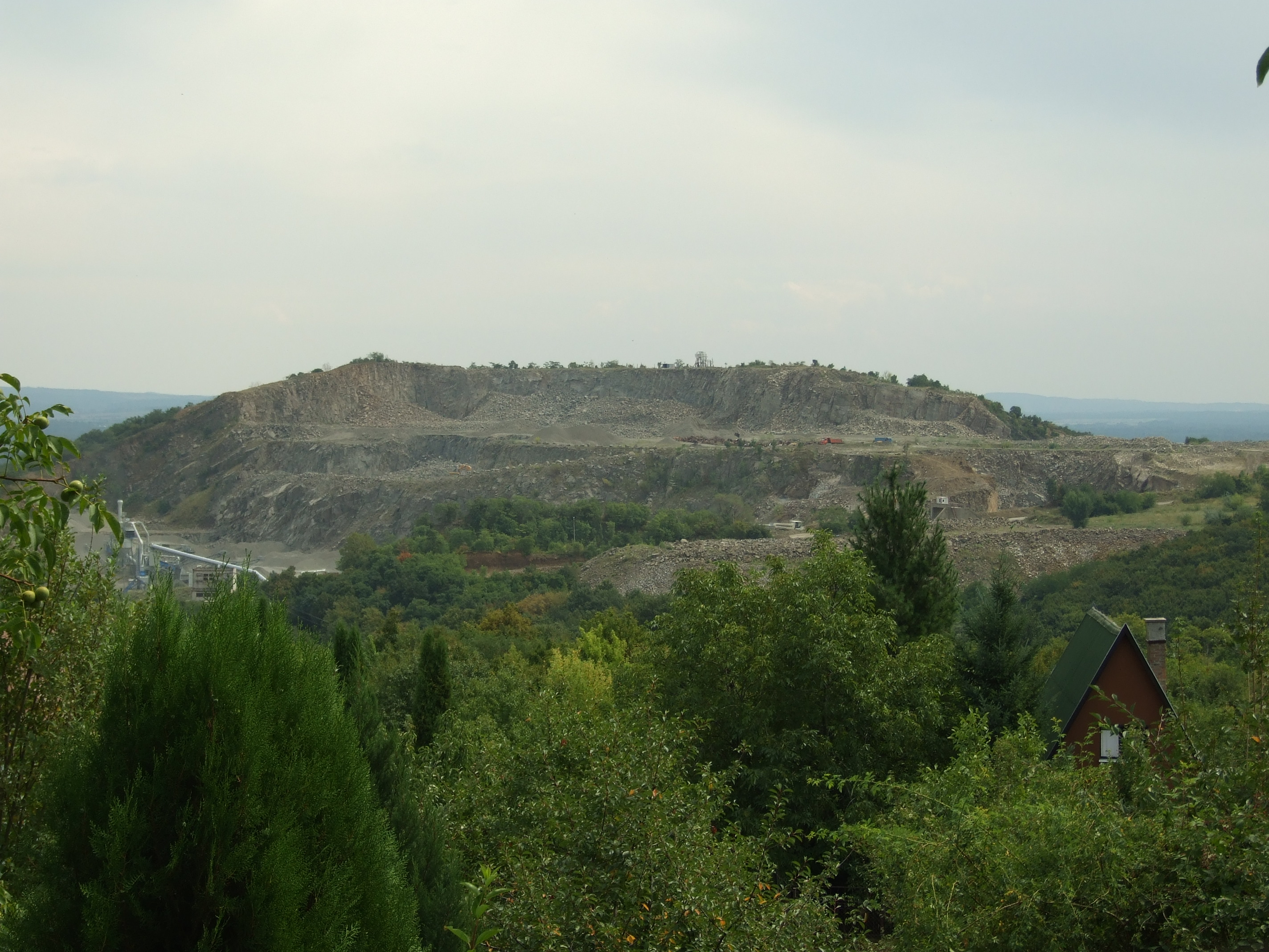 Csódi-hegy quarry, Pest comitat, Hungaryhelp